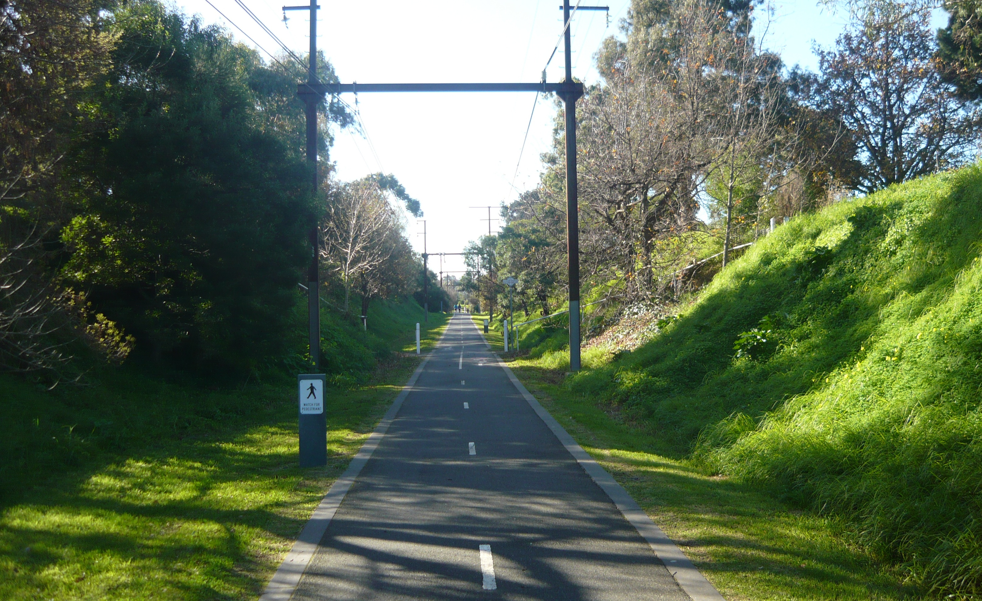 Looking north towards Alamein Railway Station along the former Outer Circle Railway formation between Alamein Railway Station and the former Waverley Road Station